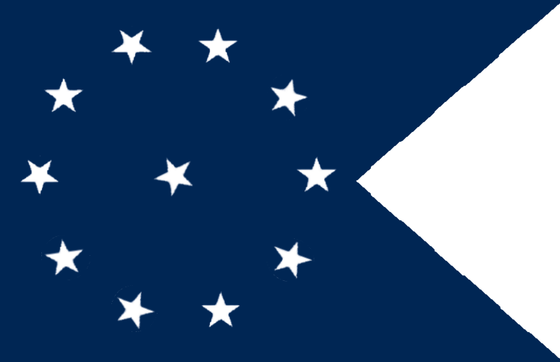 A digital recreation of Admiral Franklin Buchanan's pennant, flown from his flagship, the CSS Tennessee, during the Battle of Mobile Bay, 1864. This flag was captured in 1865.